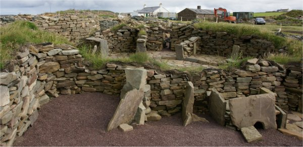 Aisled roundhouse at the archeological site of Old Scatness, Shetland, Scotland.